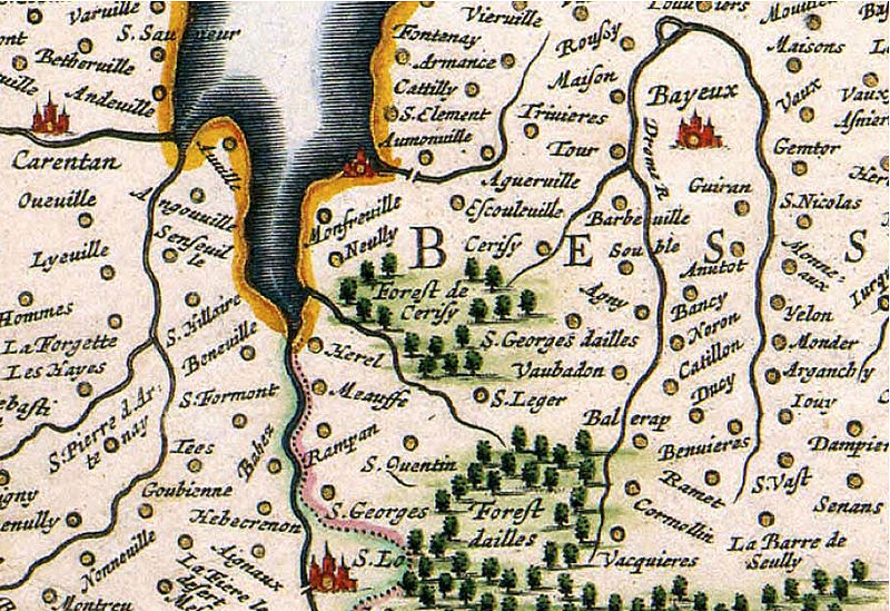 Location of Cerisy-la-Forêt and the forest of Cerisy on Willem Blaeu's map of the Duchy of Normandy.